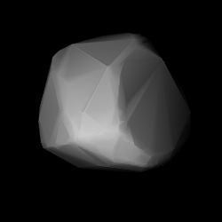 3D convex shape model of 1940 Whipple, computed using light curve inversion techniques. J. Hanuš, J. Ďurech, M. Brož, B. D. Warner (June 2011). "A study of asteroid pole-latitude distribution based on an extended set of shape models derived by the lightcurve inversion method". Astronomy and Astrophysics 530: A134. ISSN 0004-6361. arXiv